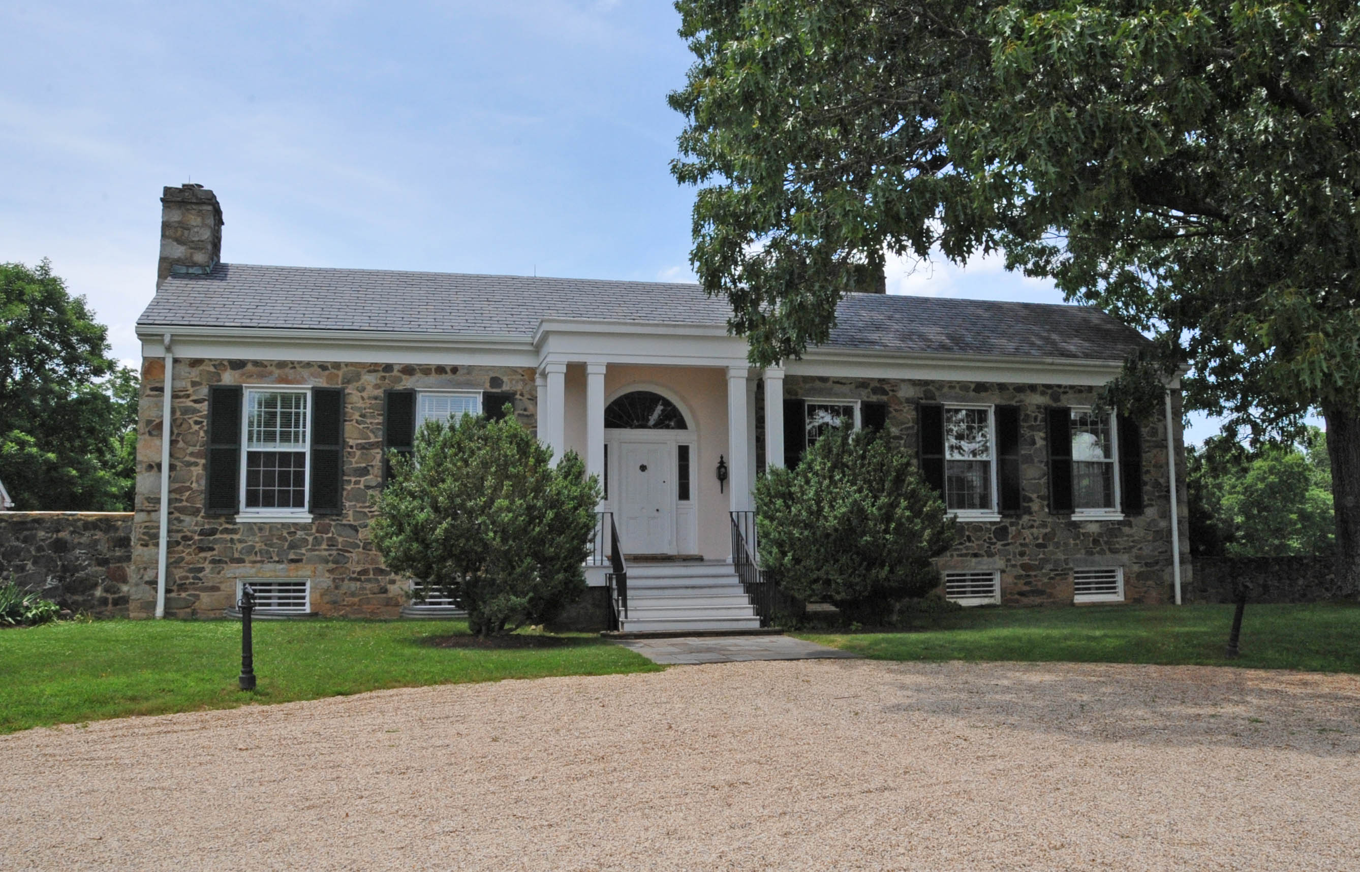 BLUE RIDGE FARMHOUSE, WHICH FUNCTIONS AS THE MAIN HOUSE TODAY. COMMISSIONED BY REAR ADMIRAL CARY T. GRAYSON, IT WAS DESIGNED IN 1933-34 BY WADDY BUTLER WOOD AS A COLONIAL REVIVAL MANOR. BLUE RIDGE FARM HAS BEEN IN THE GRAYSON FAMILY SINCE 1928 AND MAY BE THE OLDEST, CONTINUOUSLY-OPERATED HORSE-BREEDING FACILITY IN VIRGINIA.